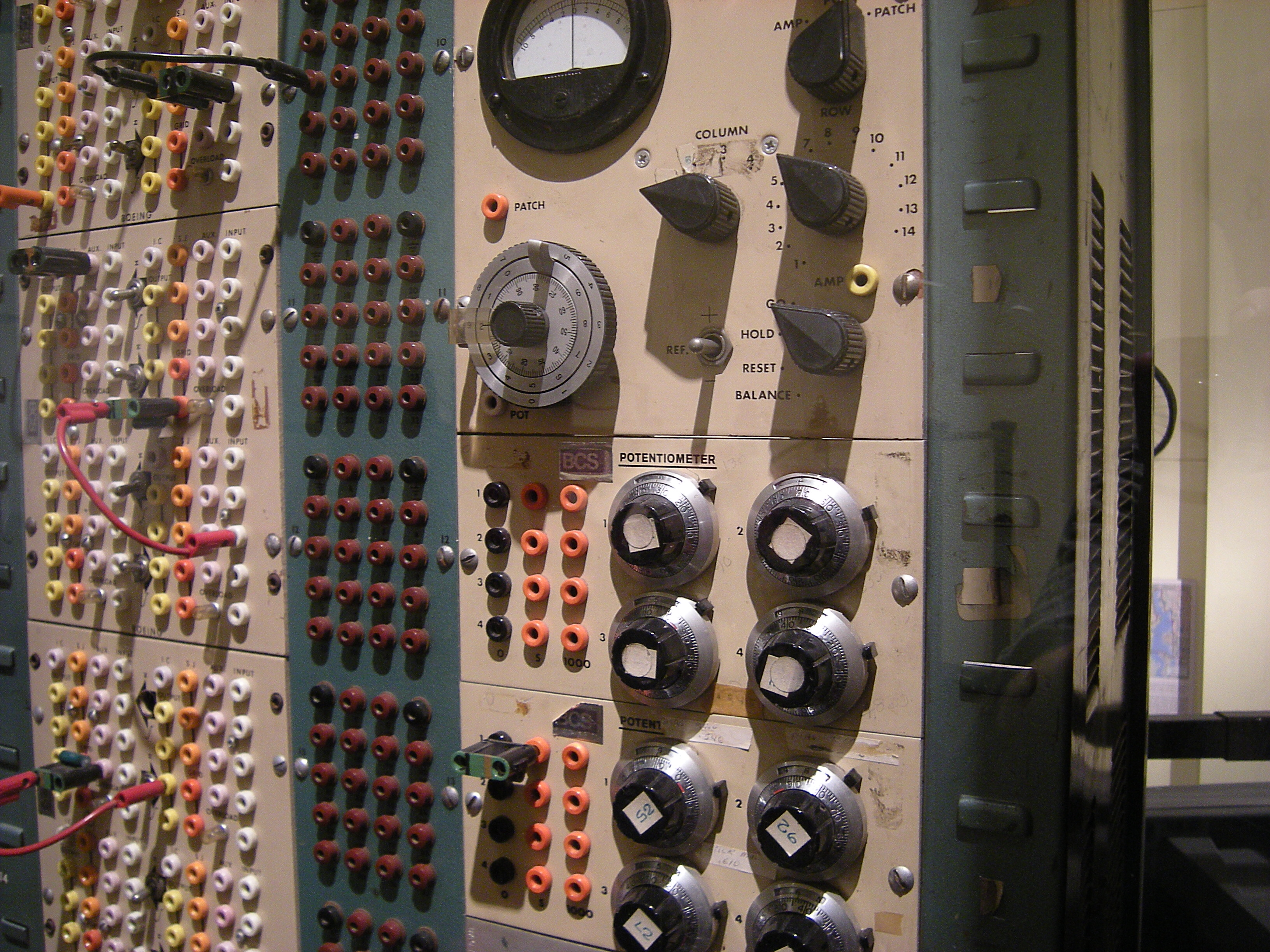 Detail, electronic analog computer, built circa 1953 at Boeing.